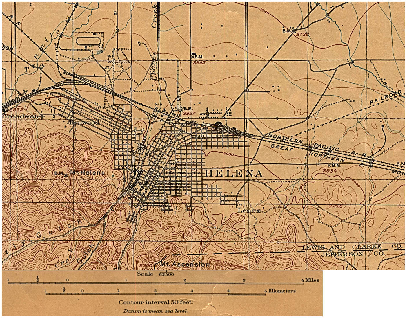 Map of the citiy of Helena, Montana in 1899.